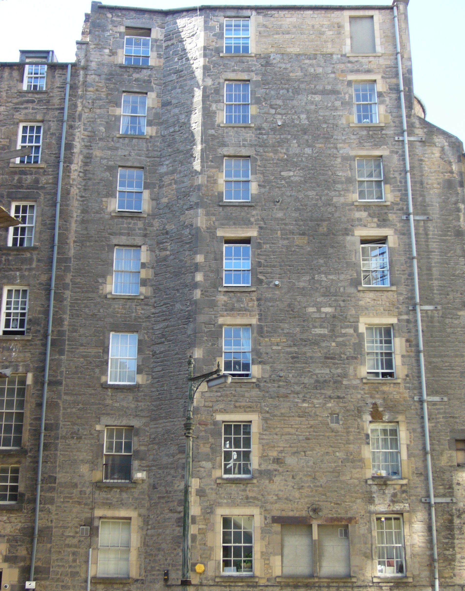 Rear view of a tenement which faces onto Leith Street.